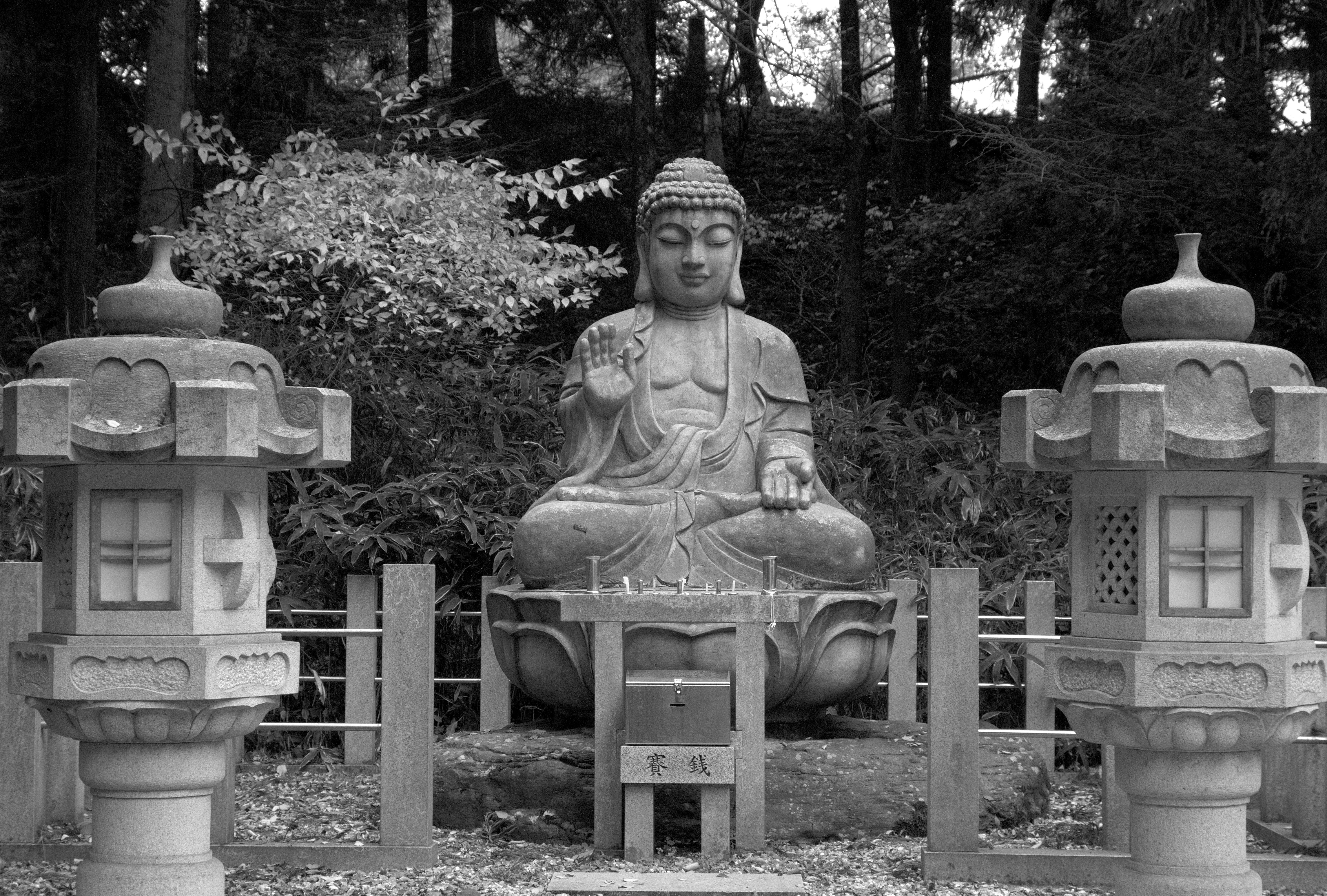 Enryaku-ji